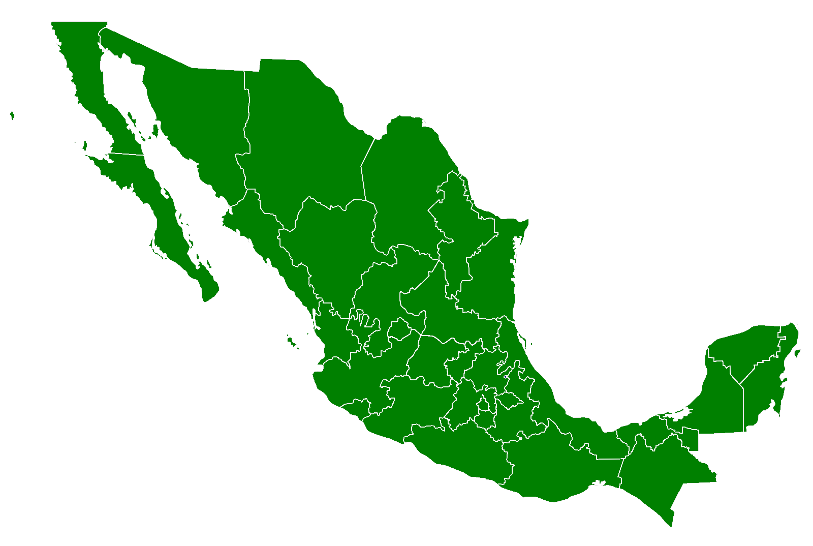 States won by PRI